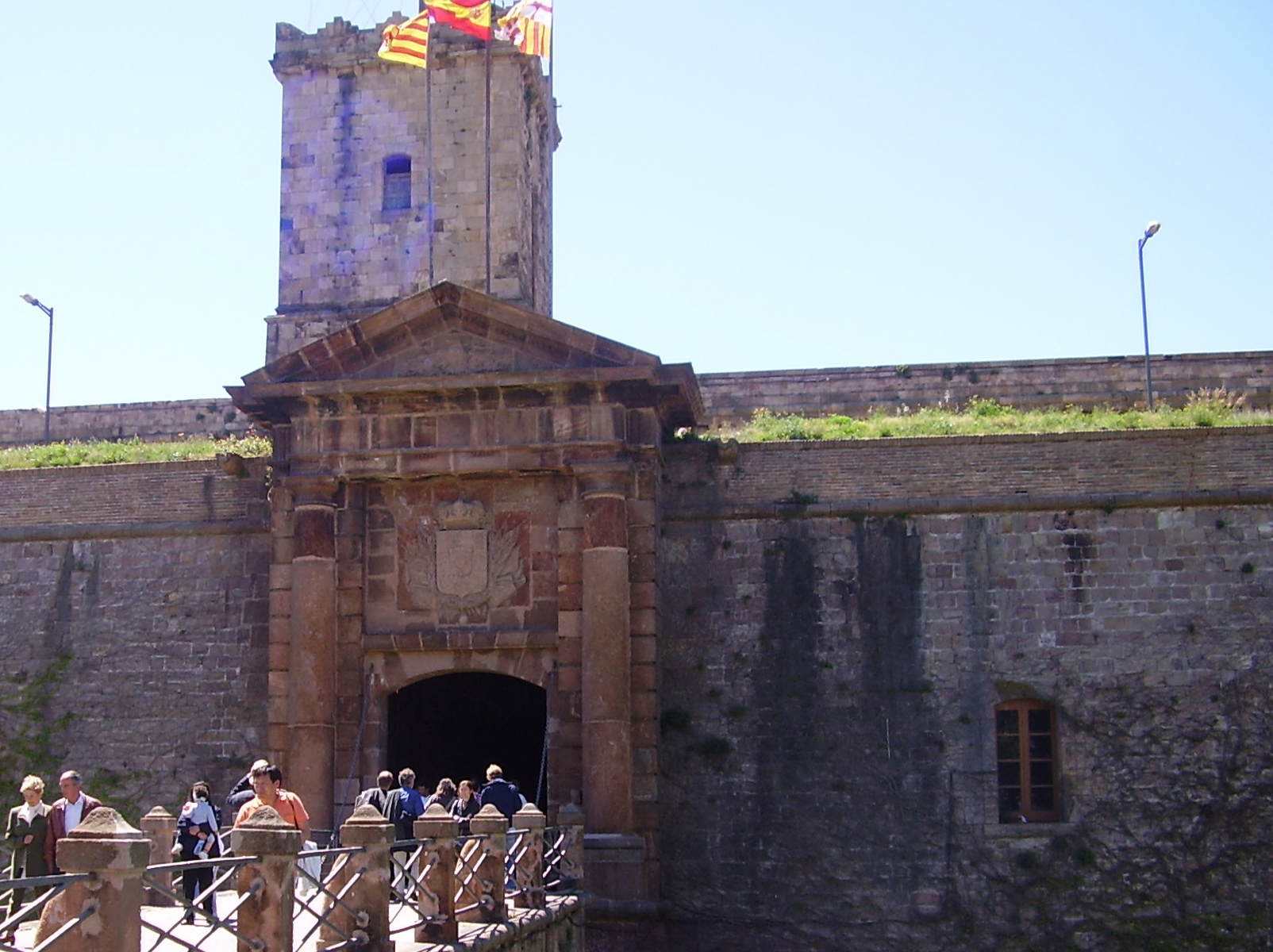 This photography was taken in Barcelona in April of 2005. I'm photography's author.